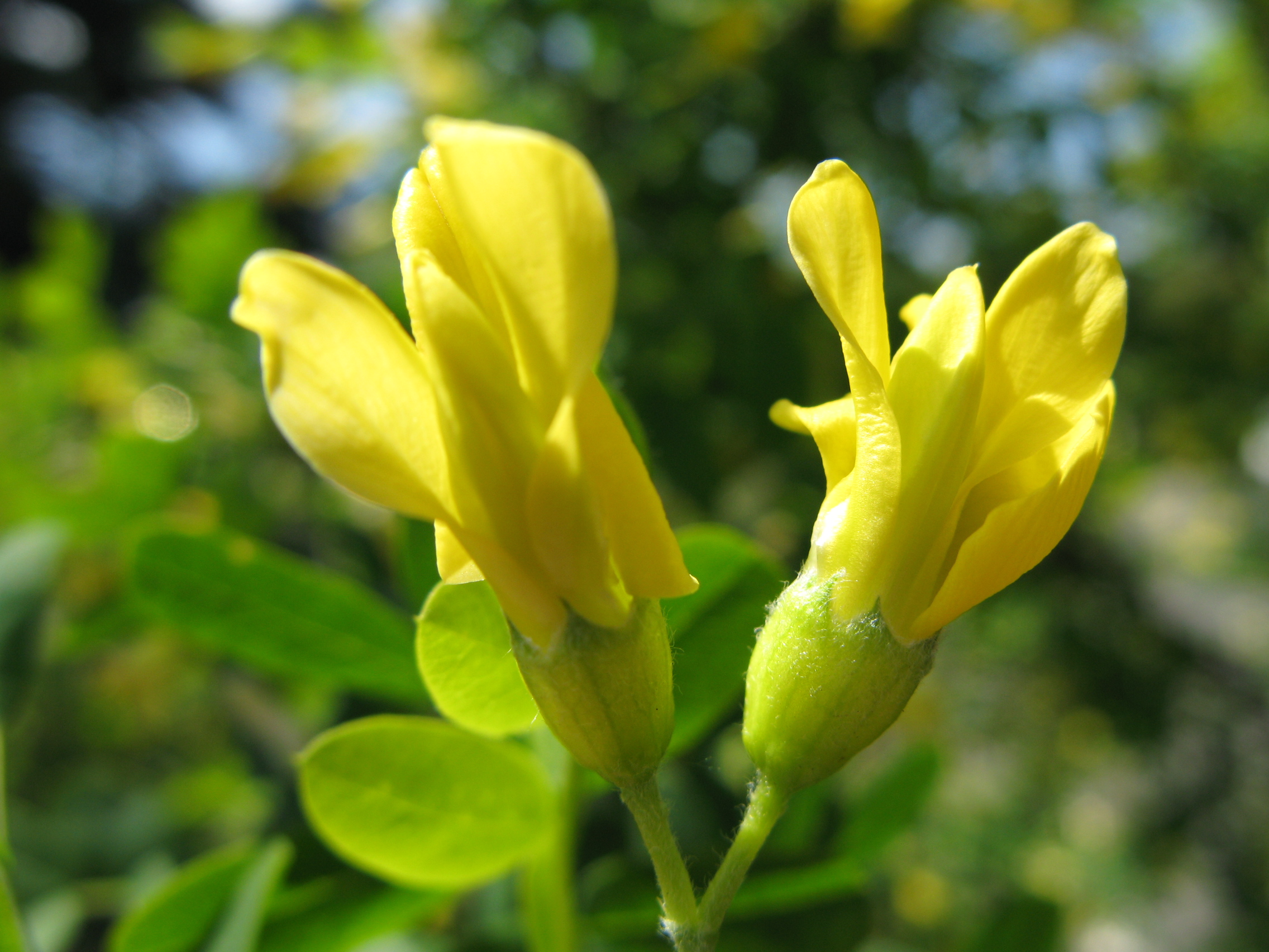 Identified as Caragana arborescens (source: [1]). Flowers. Folimanka park, Prague, Czech Republic.